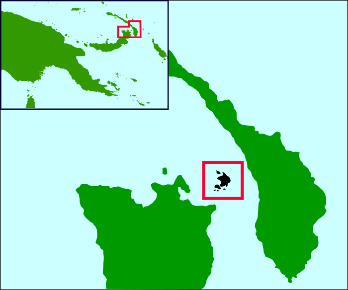 Locator map for Duke of York Islands, Papua New Guinea